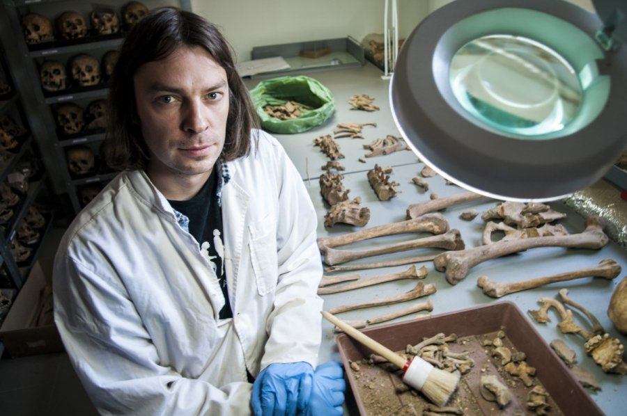 Physical anthropologist at his usual work environment.